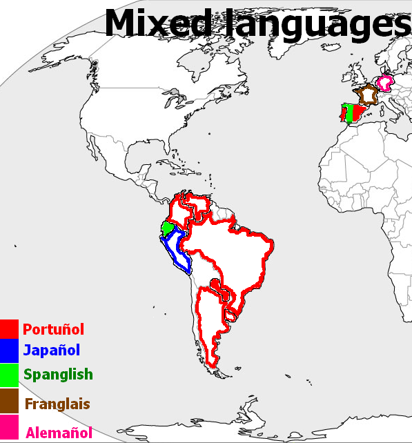 Map of the principal mixed languages of the world.